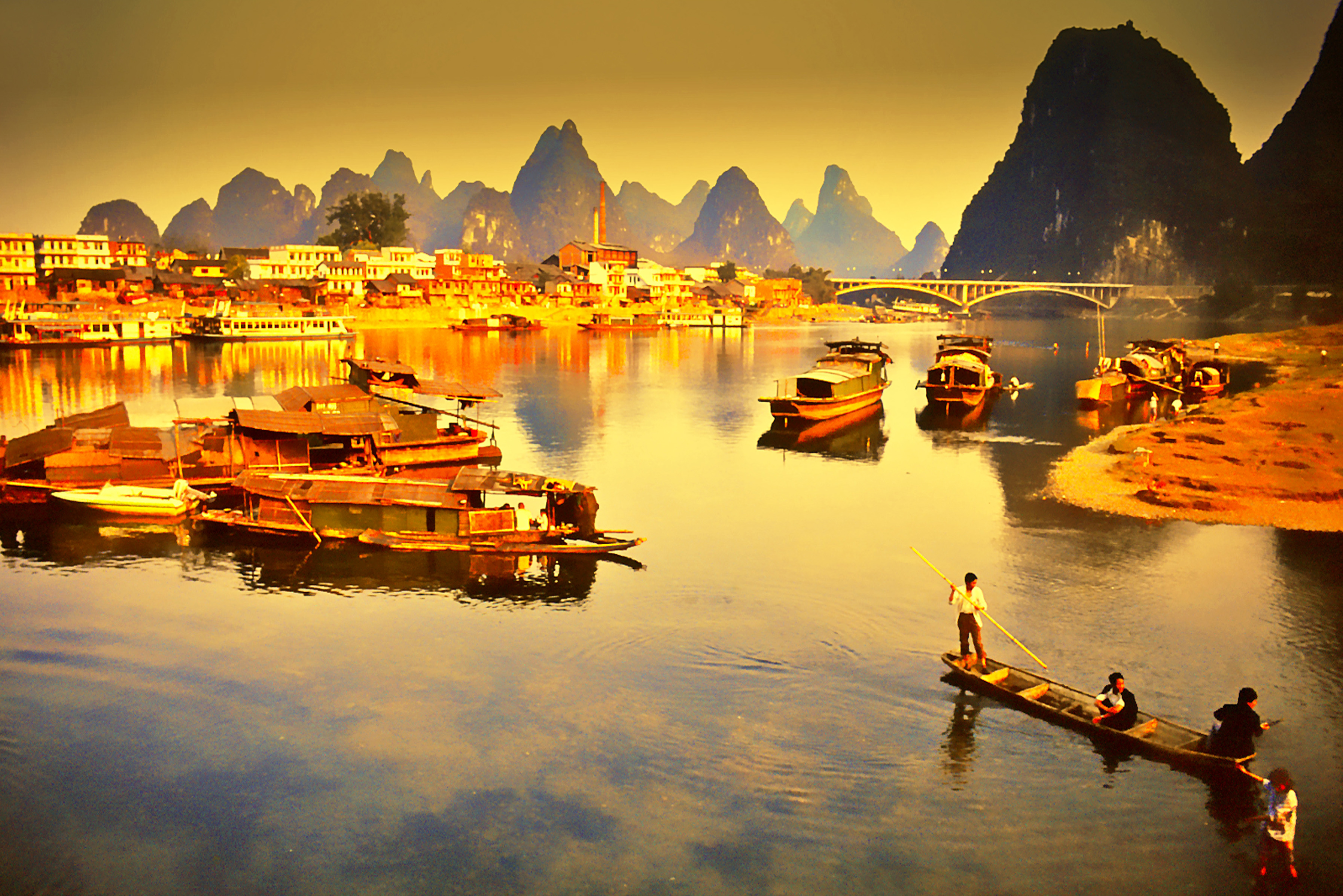 The Lijiang River, Guilin, China, 1988.